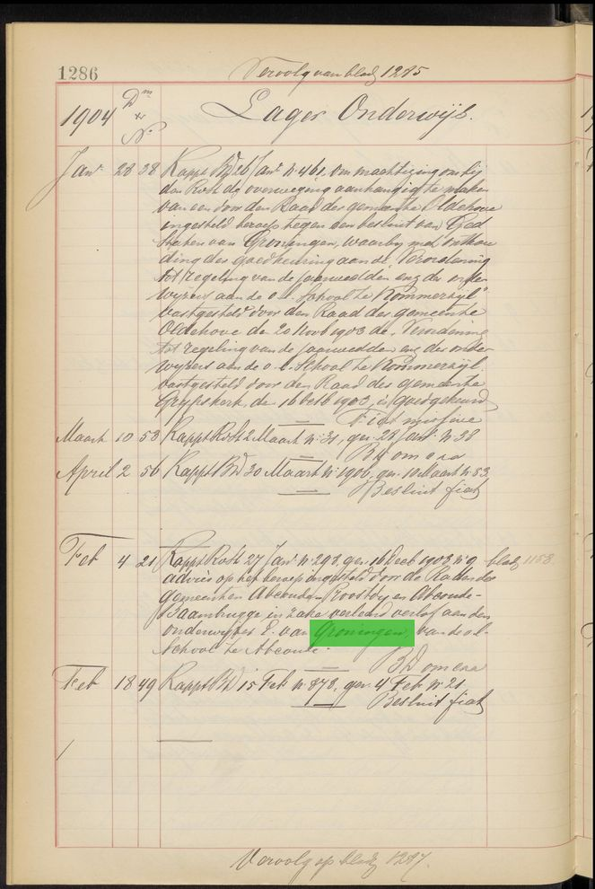 A screenshot of a page from the Archive of the Cabinet of the Dutch Queen ingested by the Monk system which is used for handwritten text recognition. This is a shot of a page where the word Groningen (inputted in a search engine) has been found by Monk.